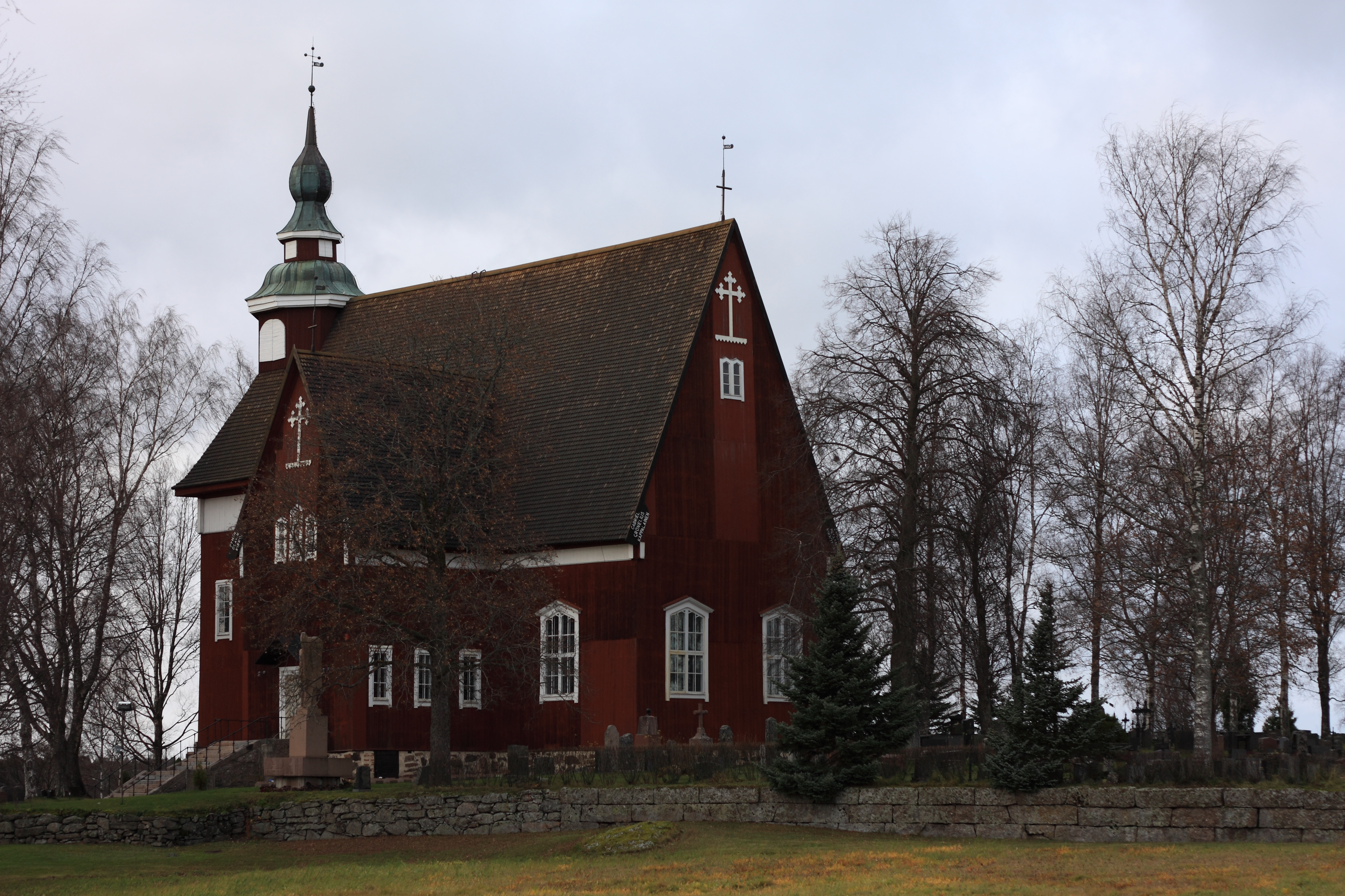 Yläne Church in Yläne, Finland. Completed in 1782. Designer: Mikael Piimänen.